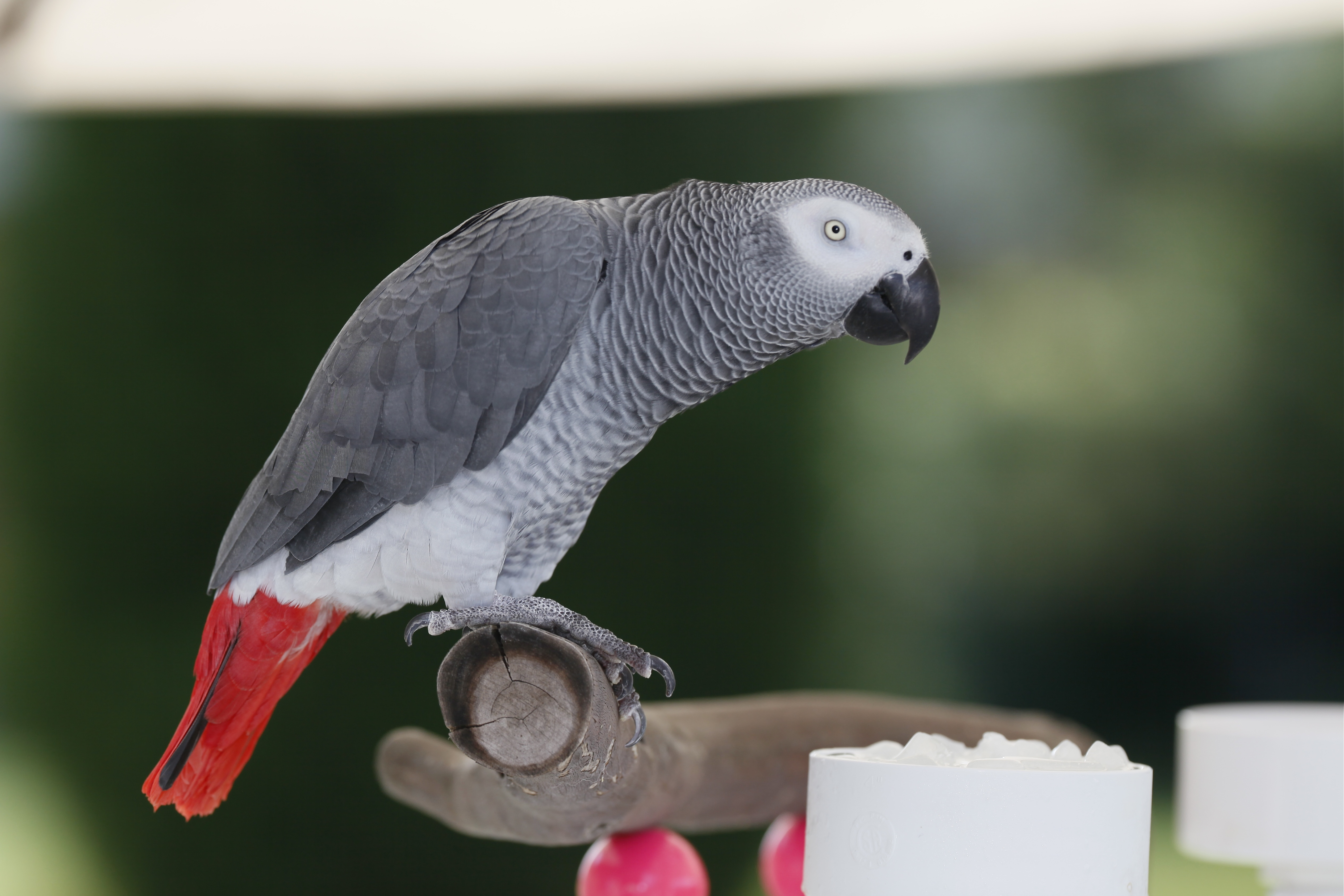 A pet African Grey Parrot on a wooden perch in a garden. It appears to have on black tail feather amongst the red tail feathers.